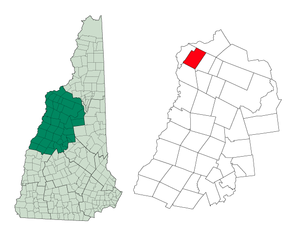 Map of a municipality in Belknap County, New Hampshire